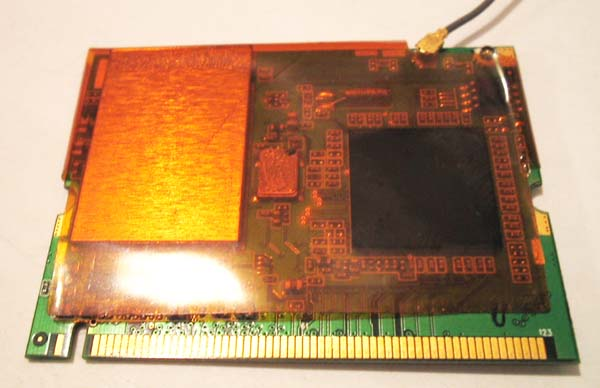 MiniPCI WiFi Card.